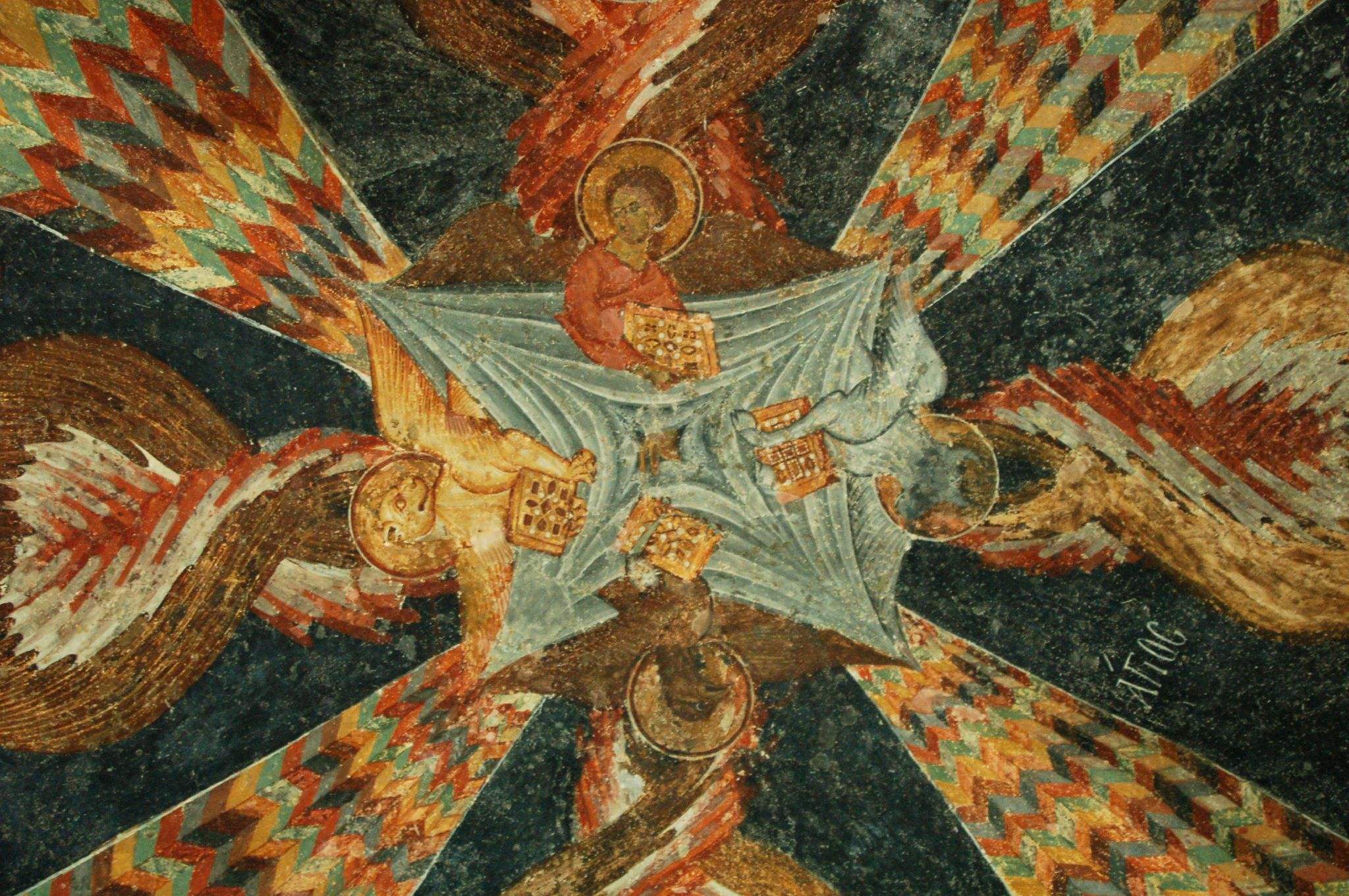 Ceiling of the Hagia Sophia, Trabzon.